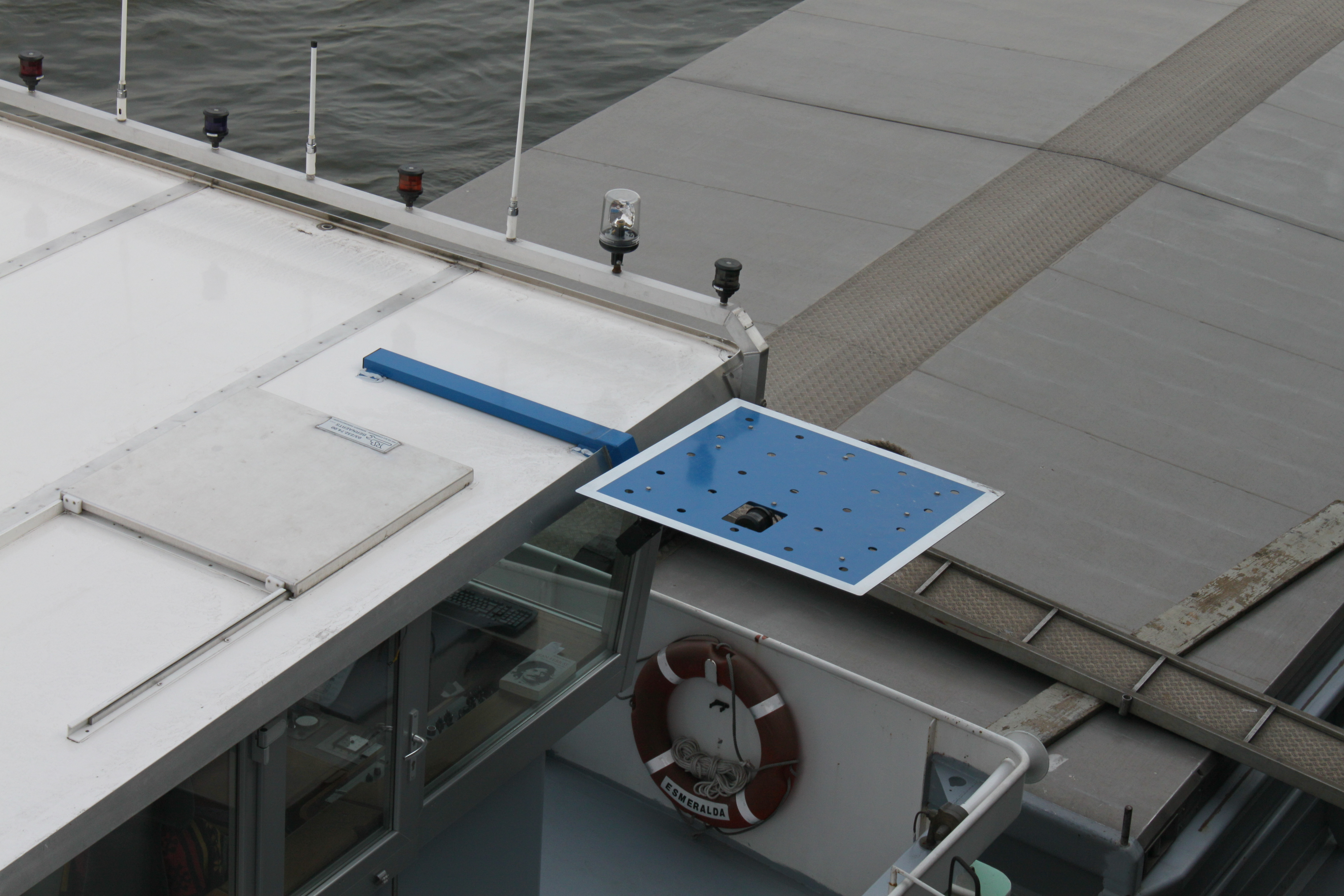 Non-active Blue sign and flashing white light. Used for starboard-to-starboard passing on the Rhine